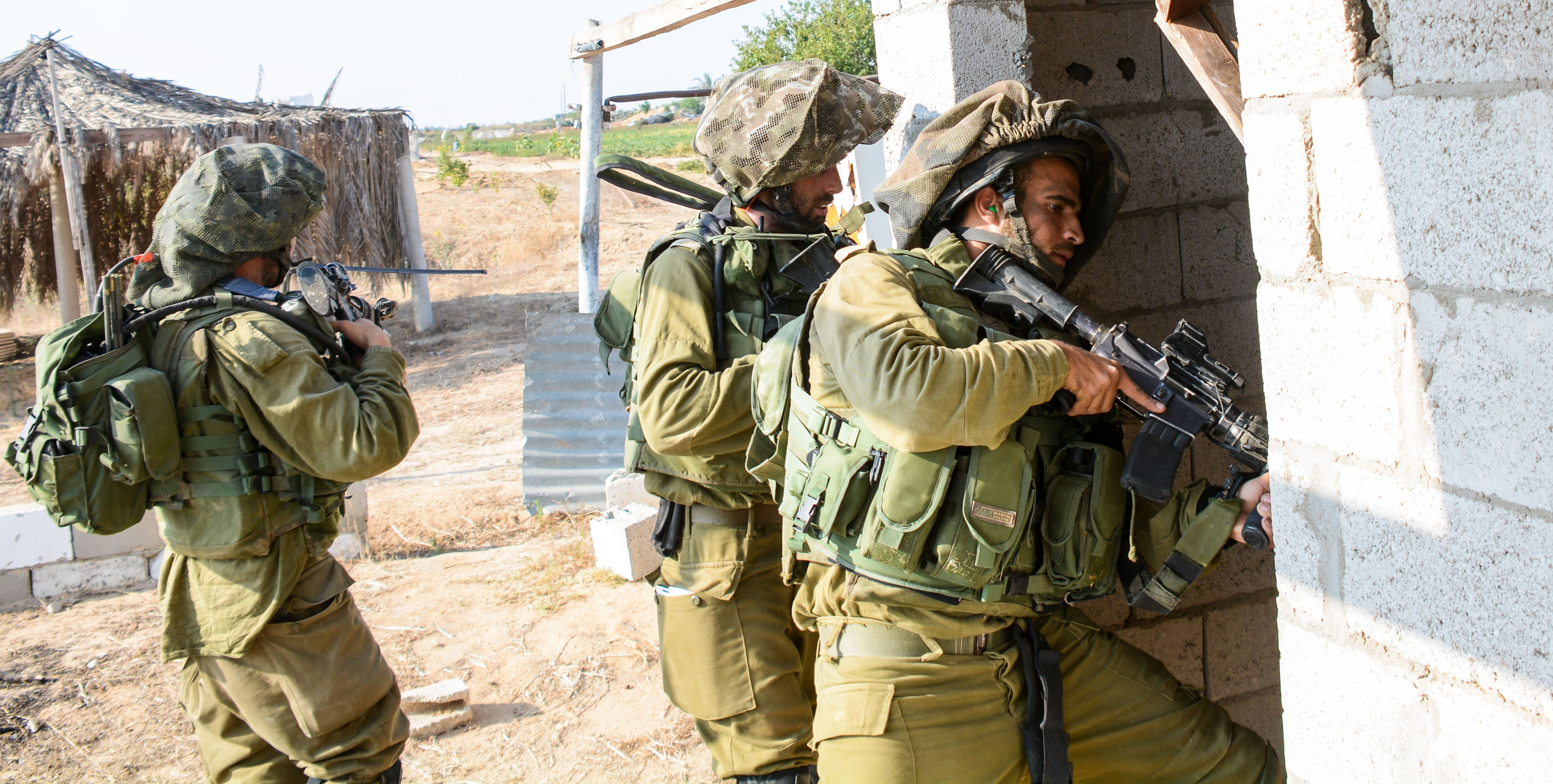 The IDF's paratroopers brigade operate within the Gaza Strip to find and disable Hamas' network terror tunnels and eliminate their threat to Israeli civilians.